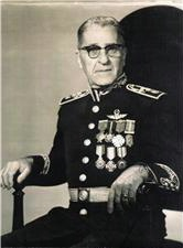 Mexican Air Forces' Division General Luis Farell. Mexico City, 1965.